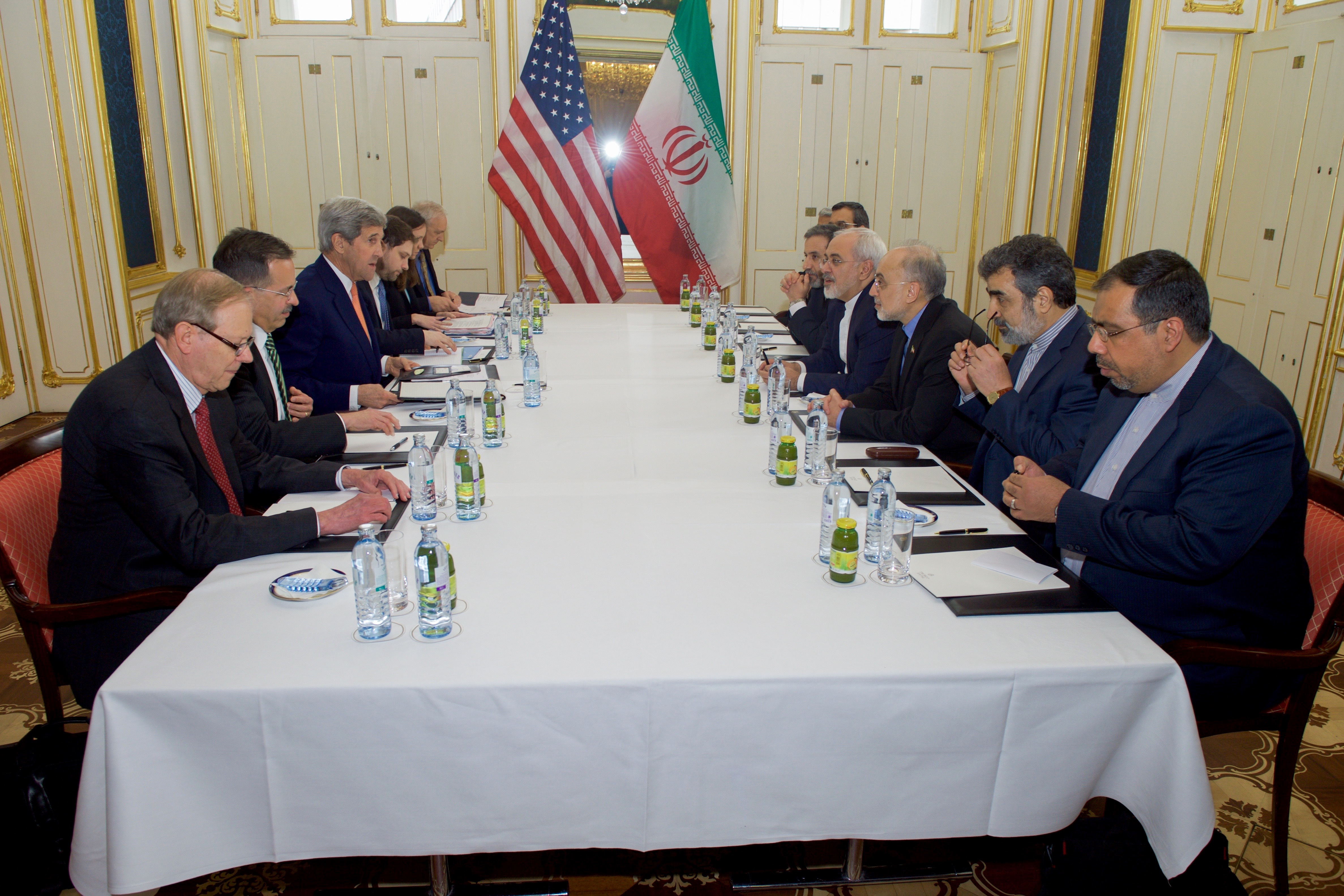 U.S. Secretary of State John Kerry, Iranian Foreign Minister Javad Zarif, and their respective advisers sit across from one another on January 16, 2015, at the Palais Coburg Hotel in Vienna, Austria, before a meeting about the implementation of the Joint Comprehensive Plan of Action outlining the shape of Iran's nuclear program.